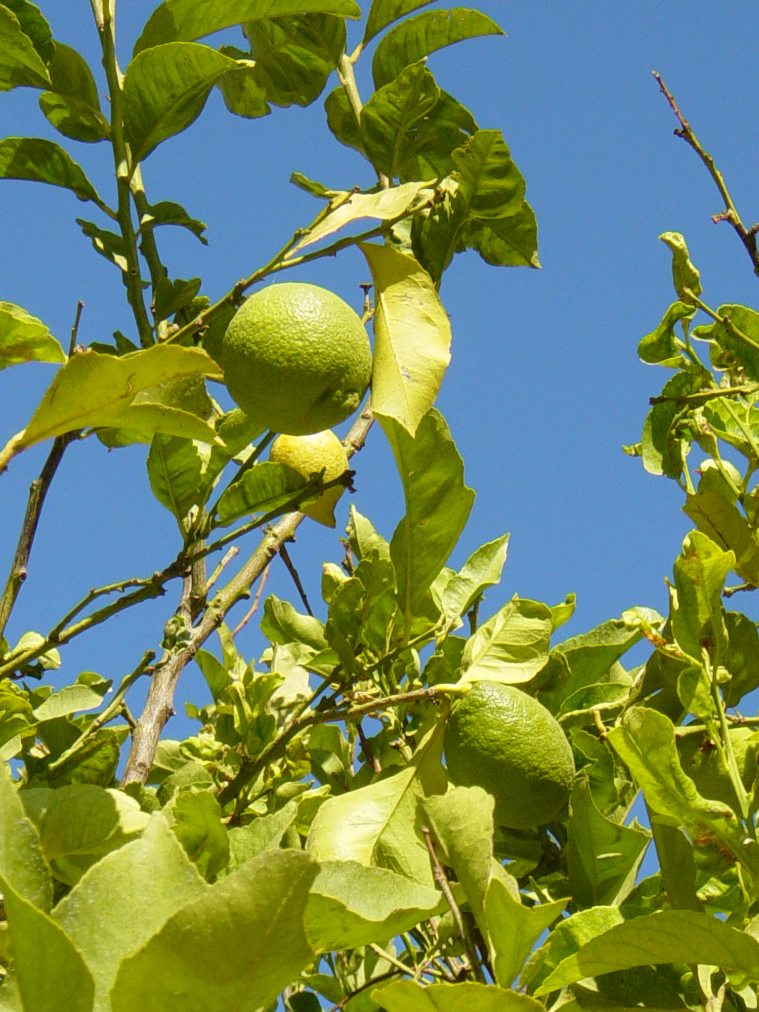 Lemons in Northern Cyprus (Ozanköy).